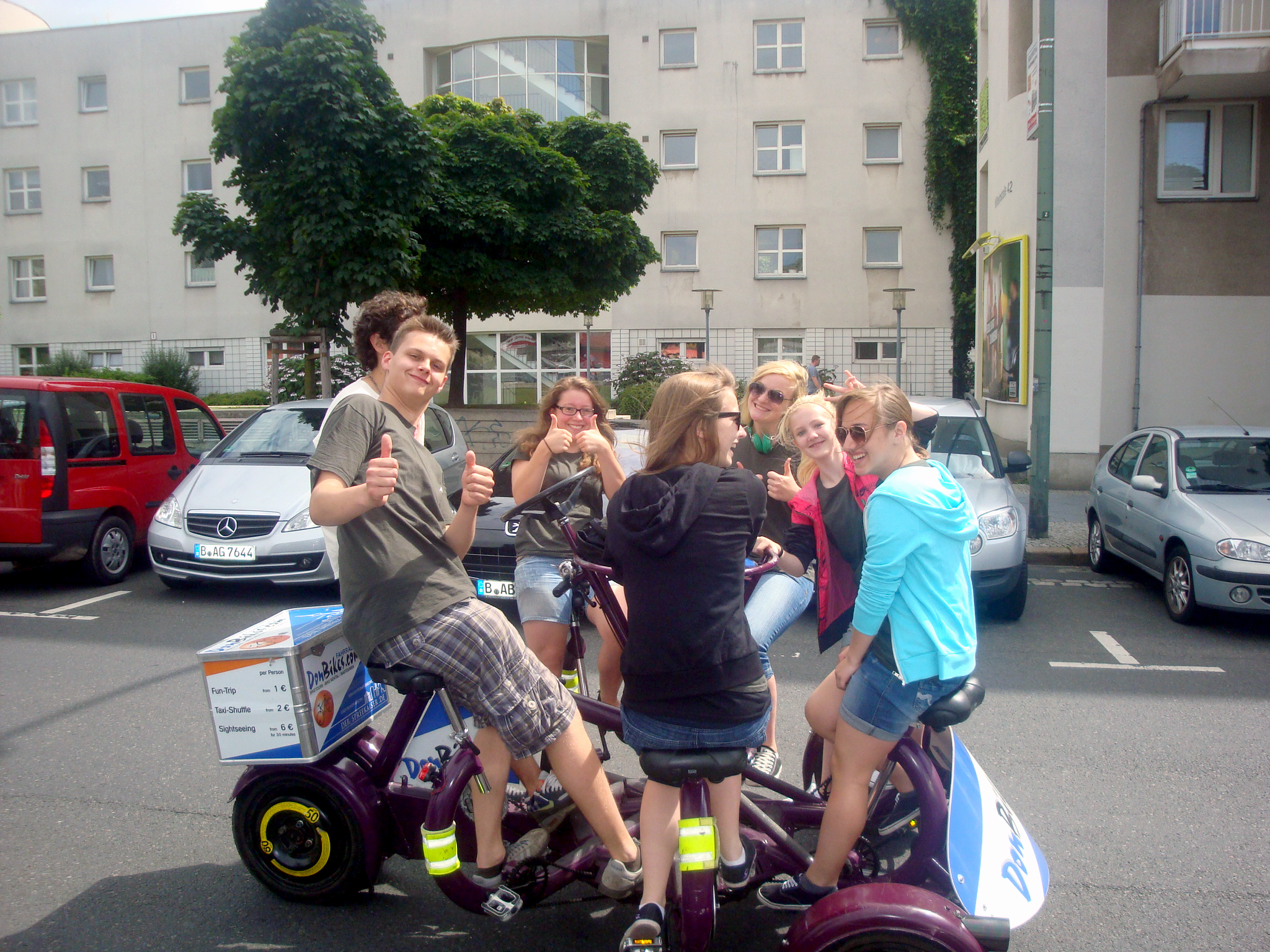 Tourist biking in Berlin city, Germany. Photographed during the "Mozilla Reps Camp 2012", dated 9th July, 2012, Berlin, Germany